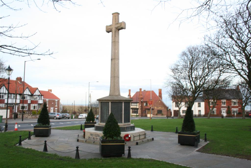 Photo of Ryhope village Green, facing East showing the World War I war memorial. In the background a wooden "Ryhope Village" sign can be seen.